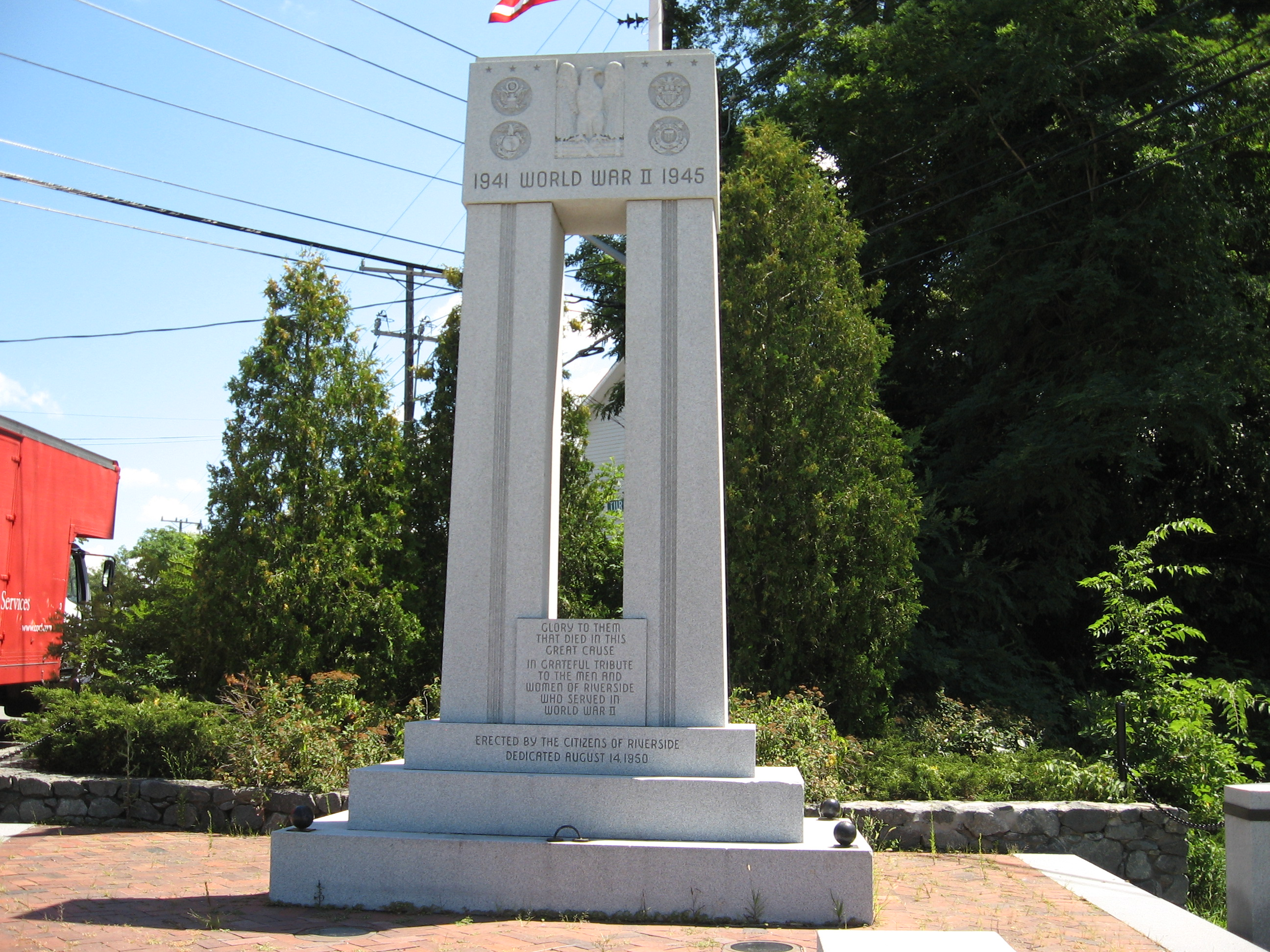 A World War II memorial on the East Bay Bike Path in East Providence, RI